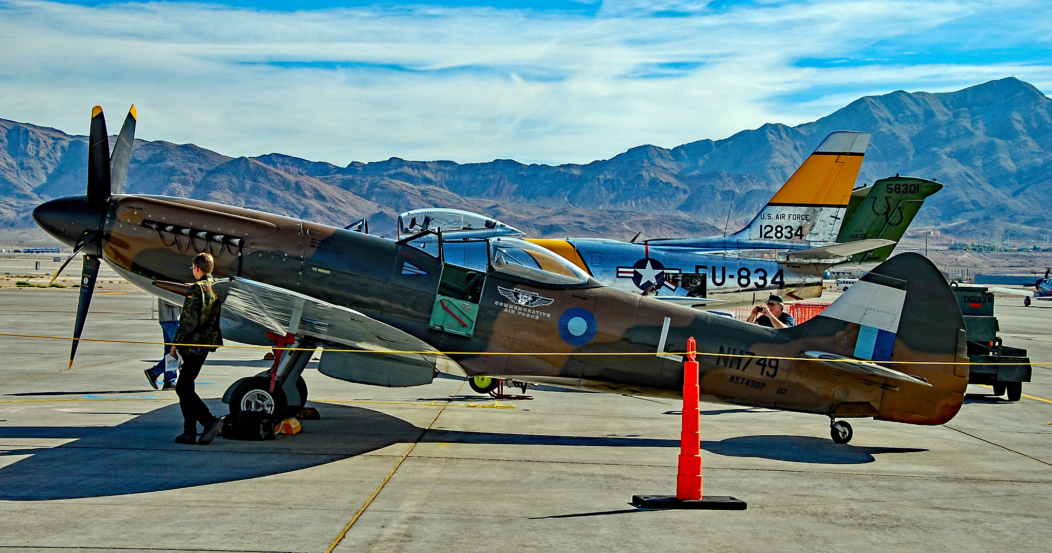 Commemorative Air Force Las Vegas - Nellis AFB (LSV / KLSV) Aviation Nation 2016 Air Show USA - Nevada, November 12, 2016 Photo: TDelCoro